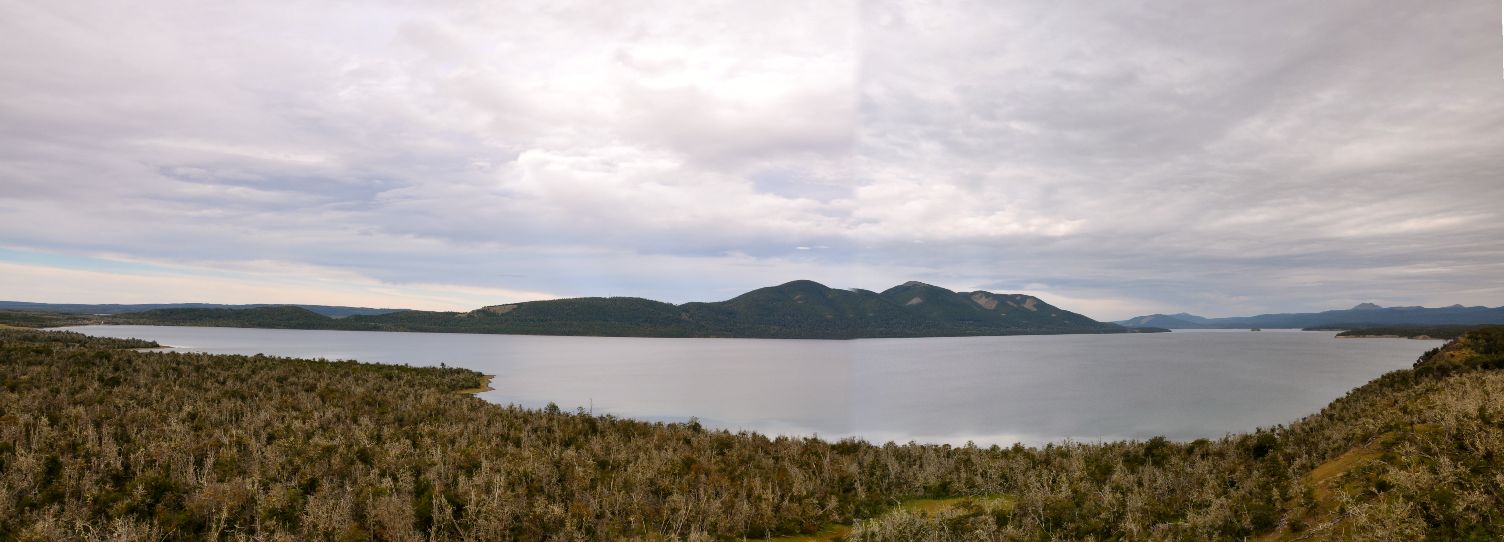 Yehuin Lake - Patagonia - Tierra del Fuego - Argentina